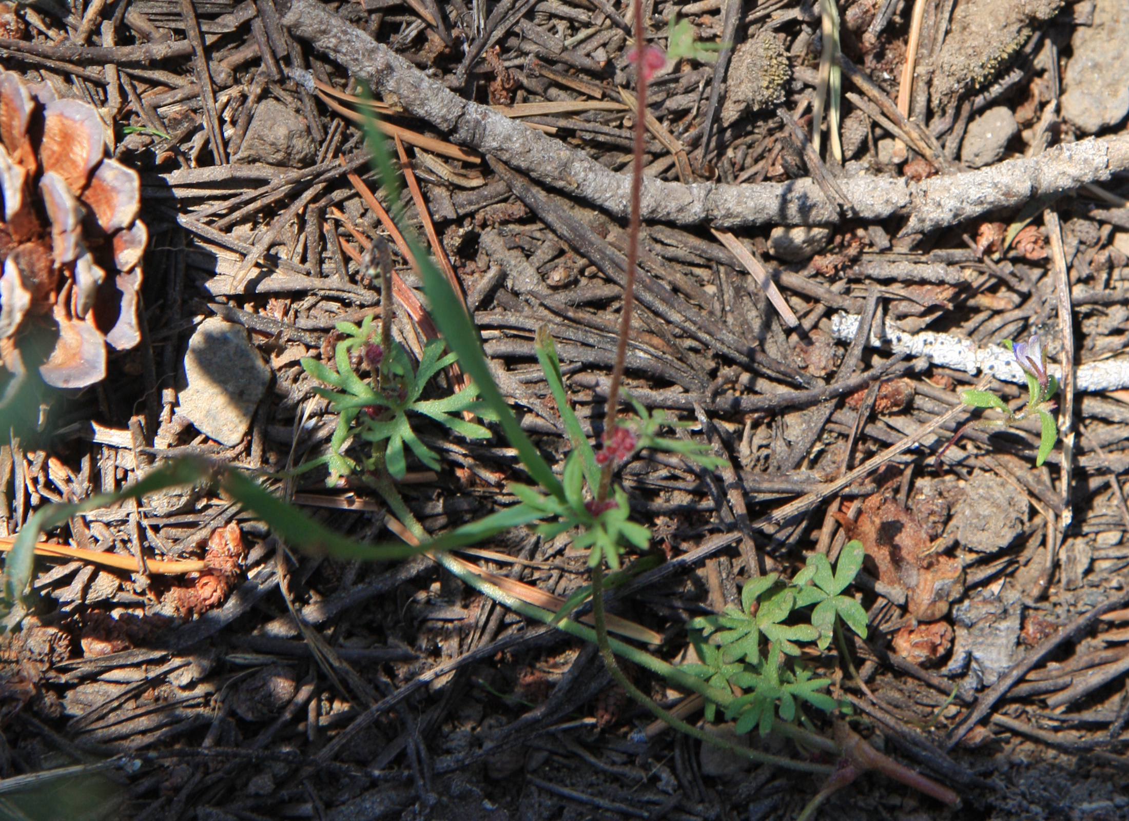 Rock star (Lithophragma glabrum), lobed basal leaves, and red bulbils on stems. At 2,976 m (9,764 ft) along High Trail (part of Pacific Crest Trail) below Agnew Pass, Ansel Adams Wilderness, California.